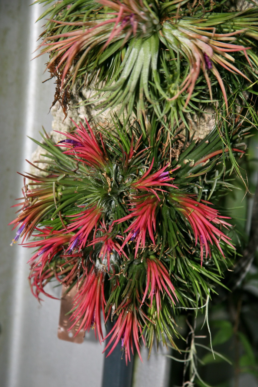 Tillandsia ionantha Member of the Bromeliad family - Bromeliaceae